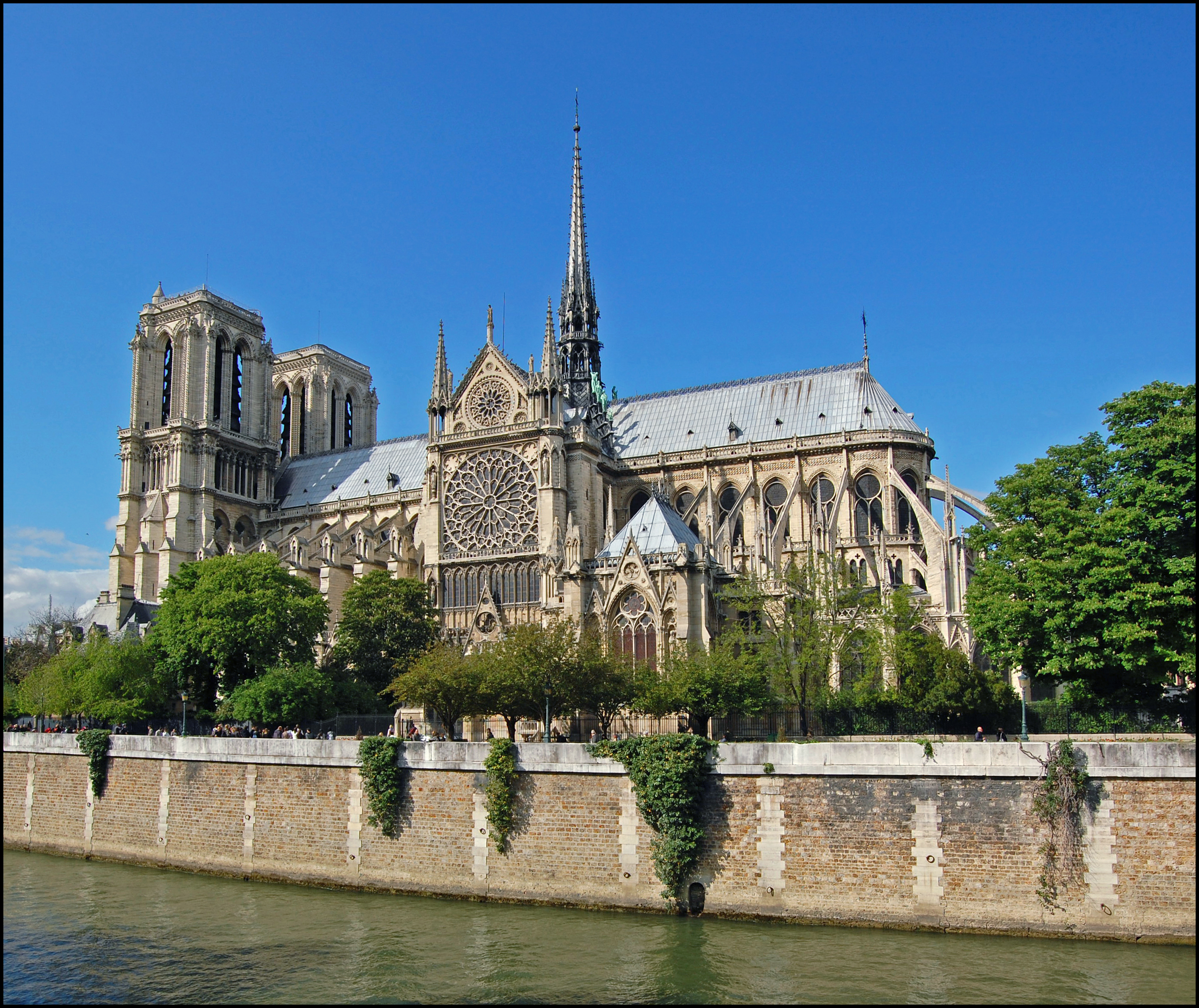 Notre-Dame de Paris (Gothic cathedral), south facade, view from the Seine